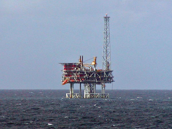 Photo of North Sea oil platfrom as seen from ms Oosterdam